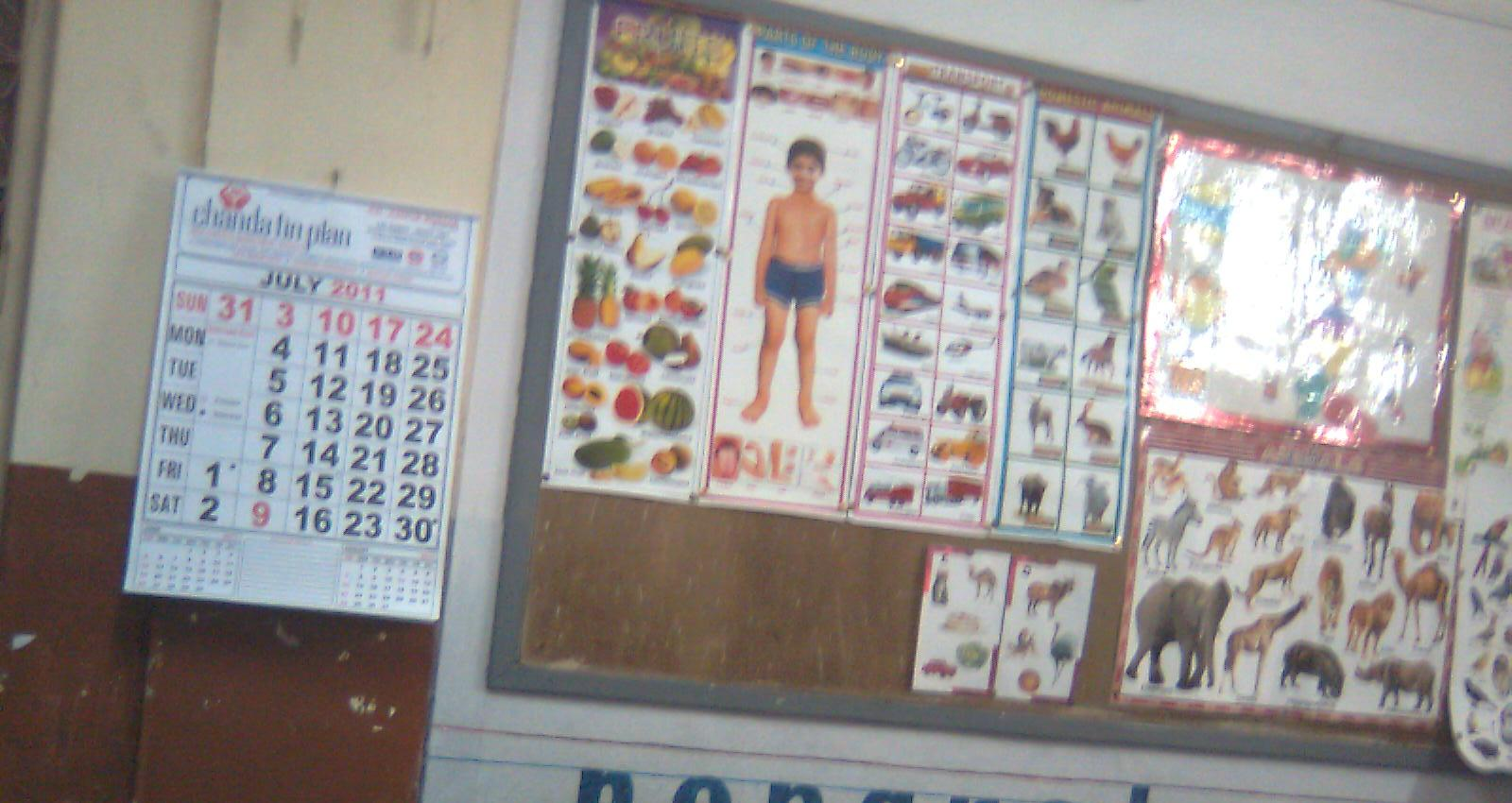 This is a school wall for Kindergarten Classroom